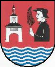 Blazon of Hauptwil-Gottshaus, Canton of Thurgau, SwitzerlandEsperanto: Blazono de Hauptwil-Gottshaus, Kantono Turgovio, Svislando